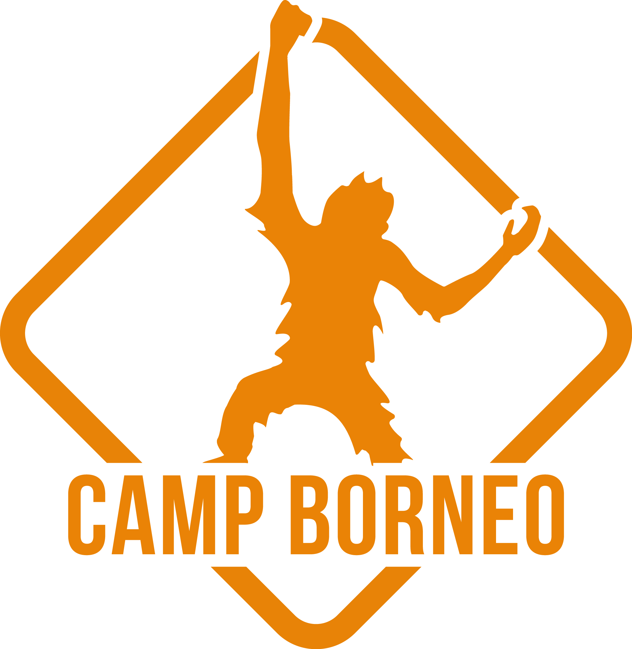 Logo for Camp Borneo, a subsidiary of Camps International.